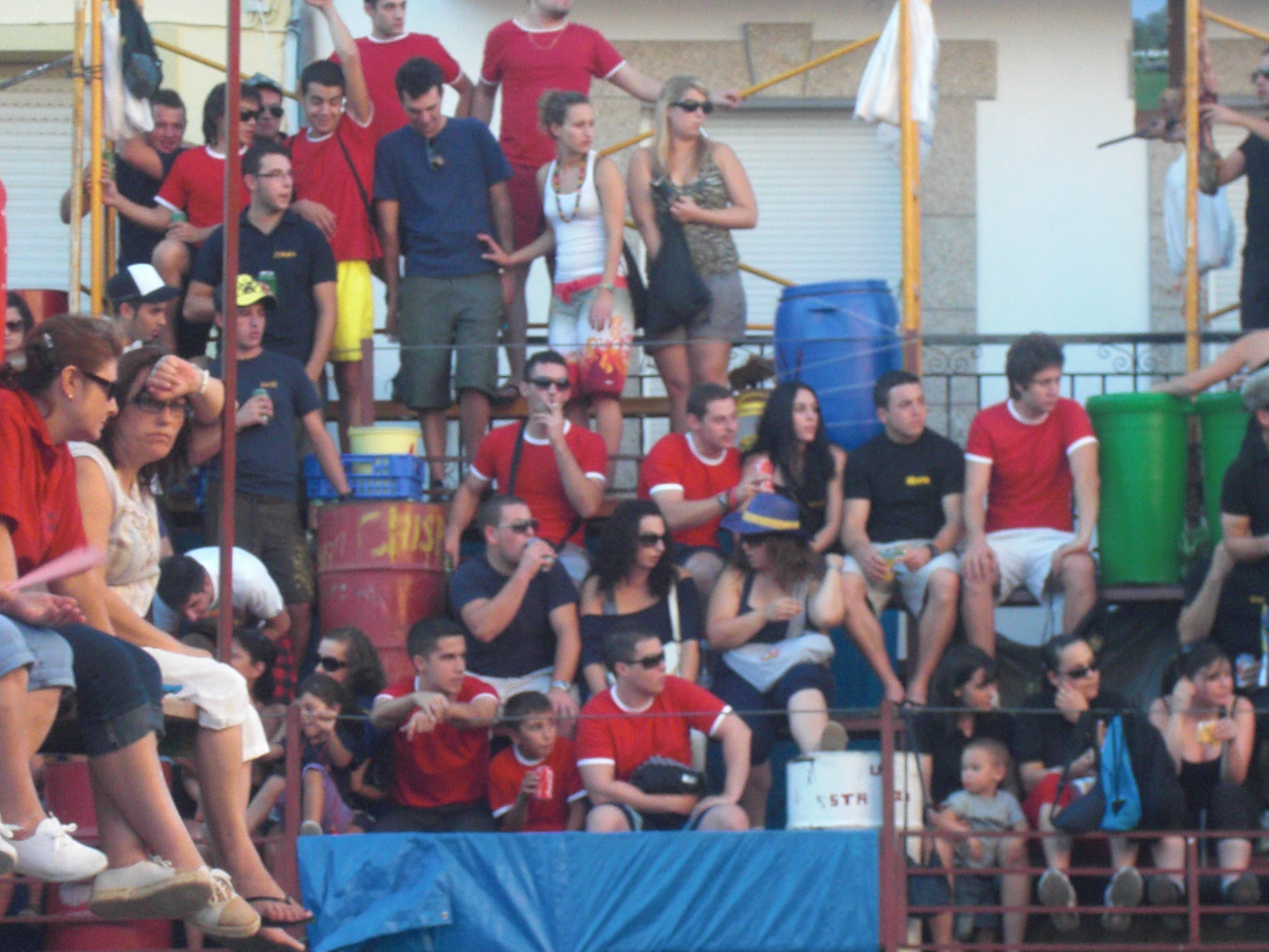 fiestaslosar